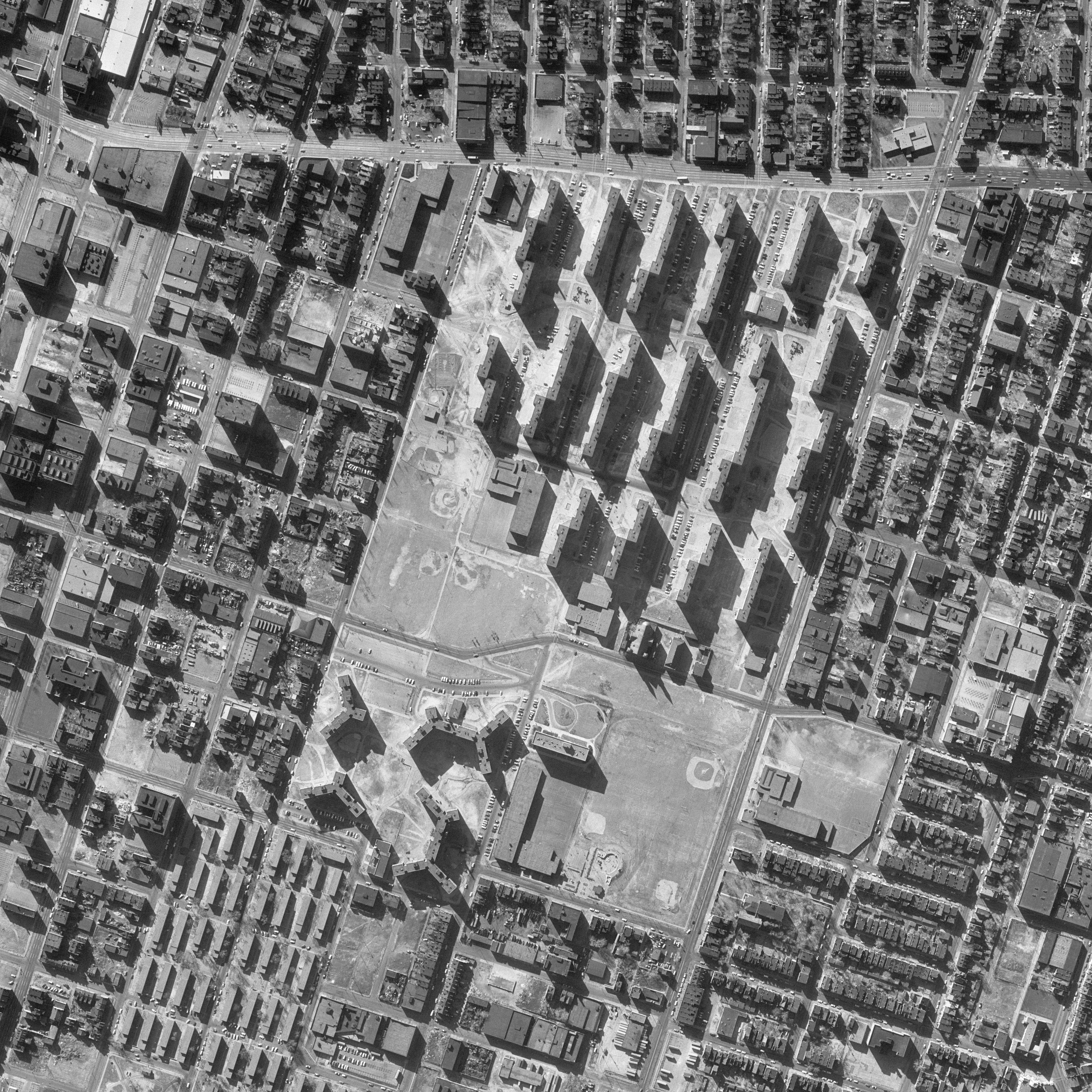 USGS High Resolution Scanned 9" x 9" airphoto of St. Louis, Missouri, U.S.A., B/W, Imaged March 03, 1968.